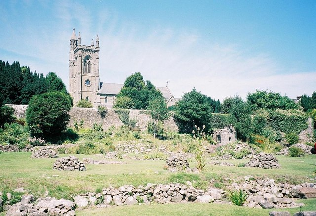 Shaftesbury: abbey ruins and Holy Trinity